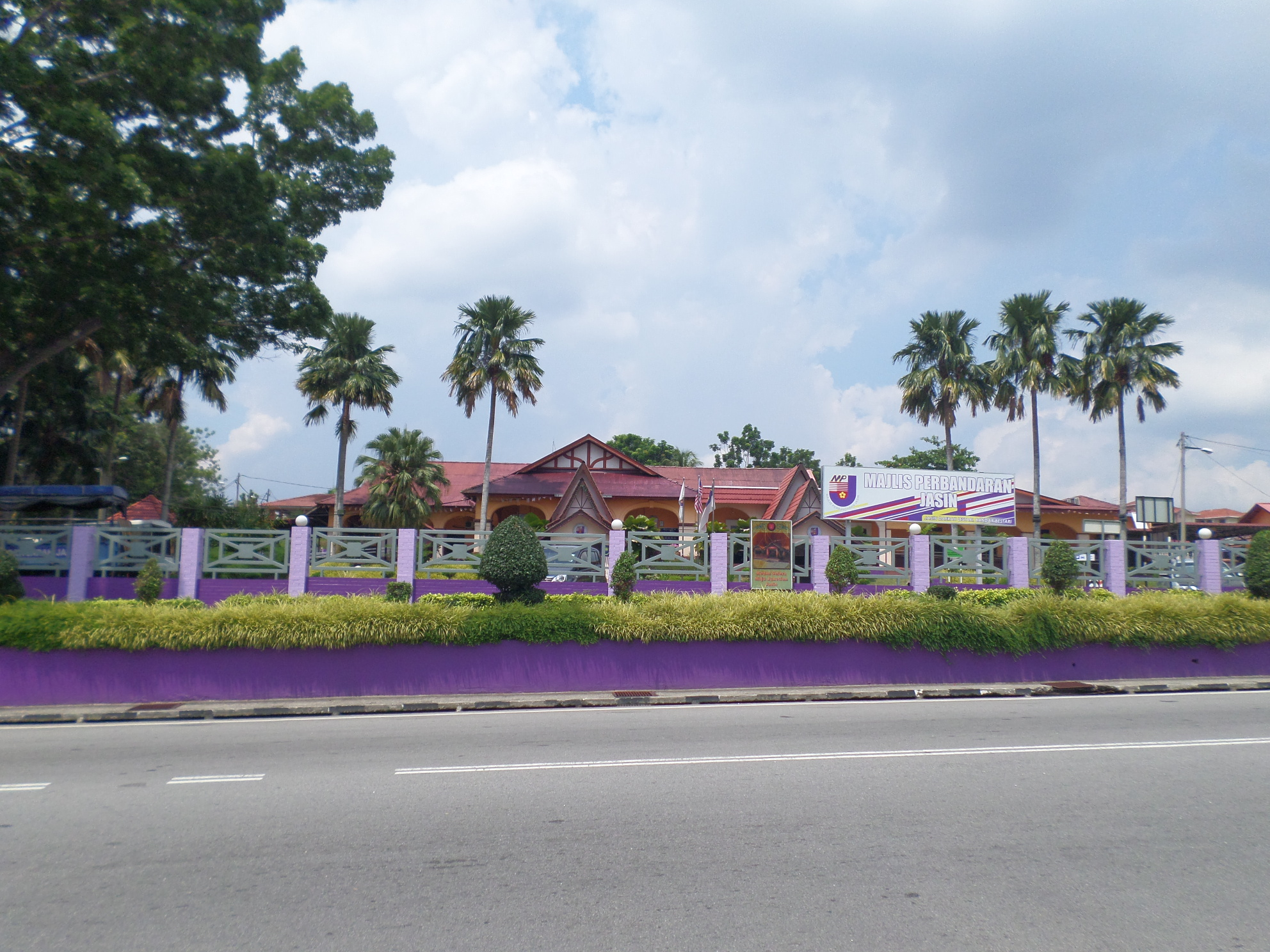 Jasin Municipal Council, Jasin, Melaka, MalaysiaBahasa Melayu: Majlis Perbandaran Jasin, Jasin, Melaka, Malaysia